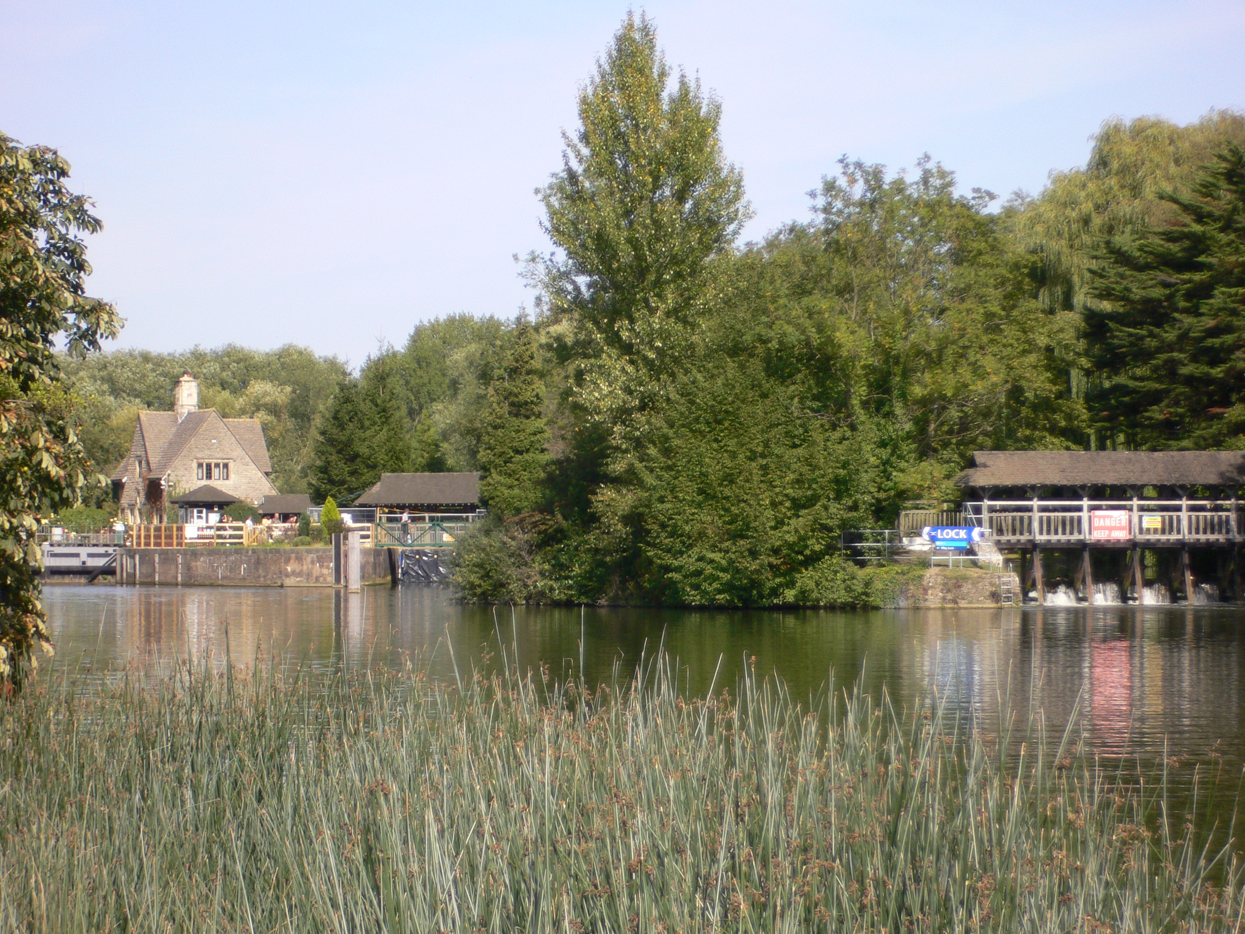 The lock at Iffley Village, as seen from the towpath, just to the south of the lock itself. Photo from and is CC-By-SA licensed